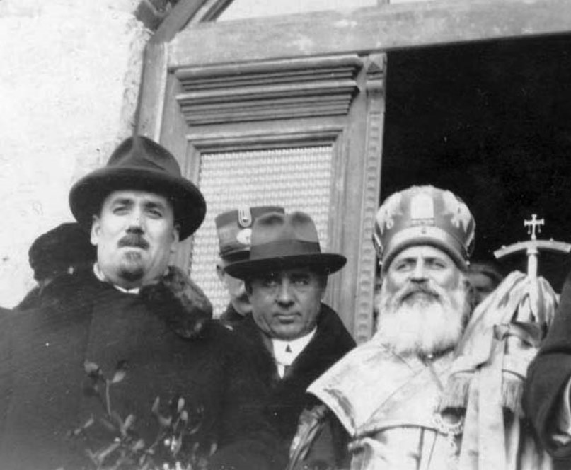 Romanian agrarianist politicians Pan Halippa (left) and Ștefan Holban, with Bessarabian Orthodox Metropolitan Gurie Grosu, attending a public function in Nisporeni.